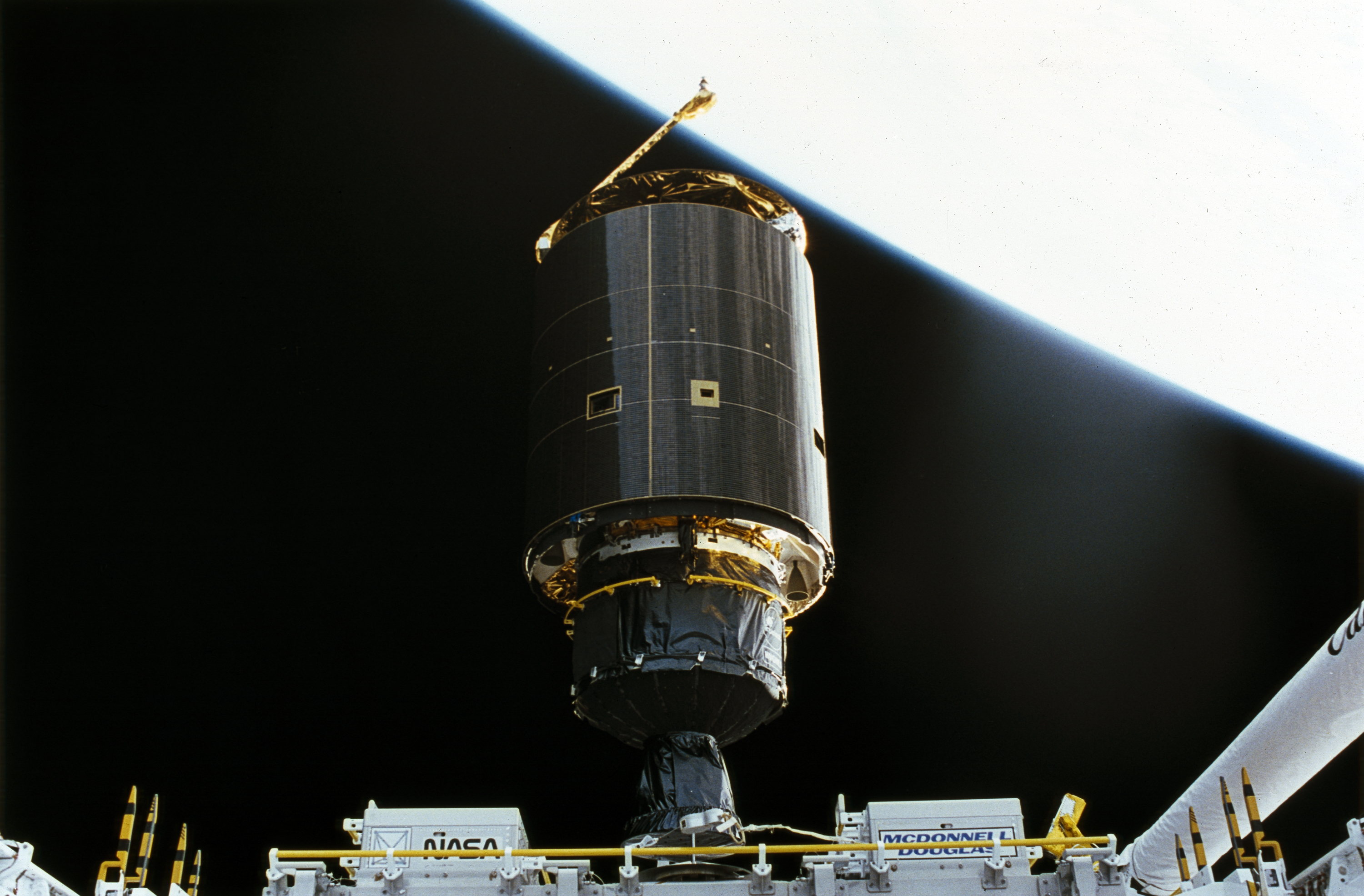 Re-deployment of INTELSAT VI after repairs on STS-49.